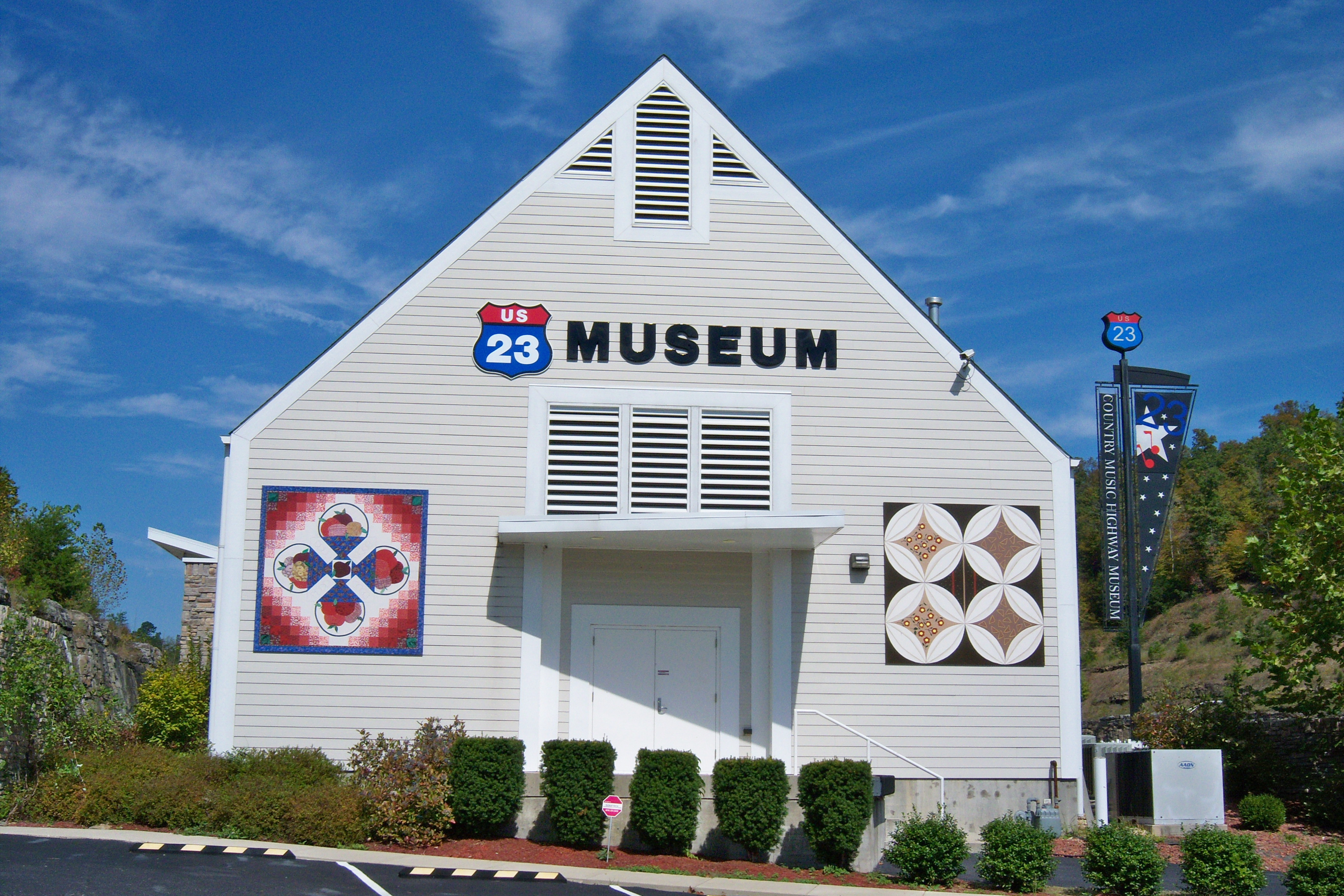 Side of U.S. 23 Country Music Highway Museum in Paintsville, Kentucky.